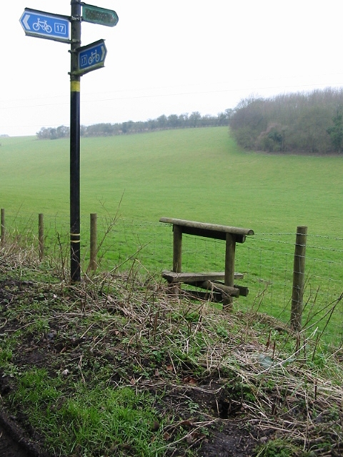 Finger post and stile